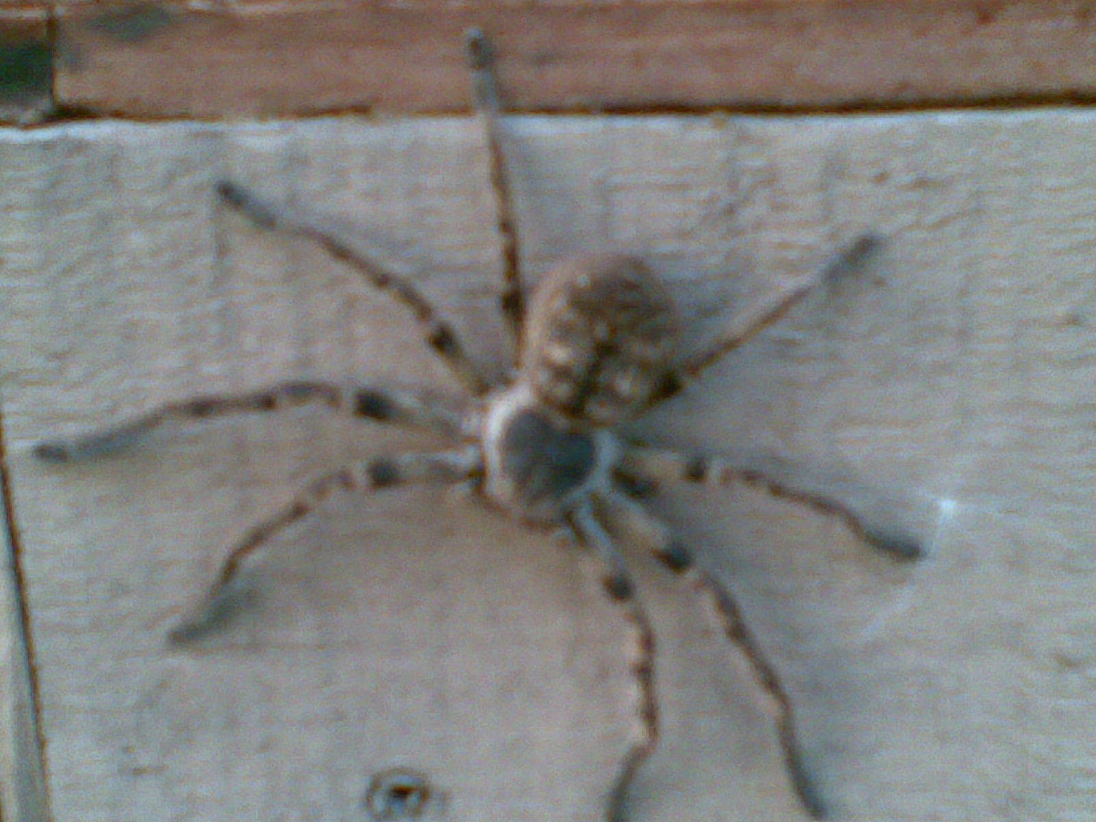 Polybetes pitagoricus.